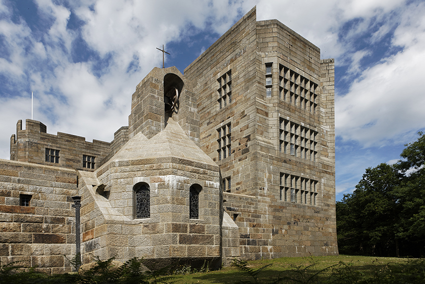 Castle Drogo in the Teign Valley Drewsteignton, Devon, England. Designed by Sir Edwin Lutyens in granite to create Julius Drewe's "ancestral home". Grade I listed. Building completed in the 1920s.